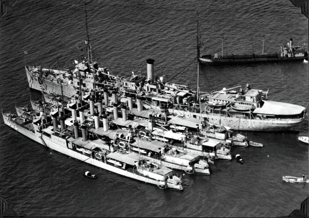 PictionID:38276540 - Catalog:AL-135B 158 - Filename:AL-135B 158.tif - This image is from a photo album donated to the Museum by JL Highfill which includes images taken in the Pacific during the Second World War-----------PLEASE TAG this image with any information you know about it, so that we can permanently store this data with the original image file in our Digital Asset Management System.-----------------SOURCE INSTITUTION: San Diego Air and Space Museum Archive